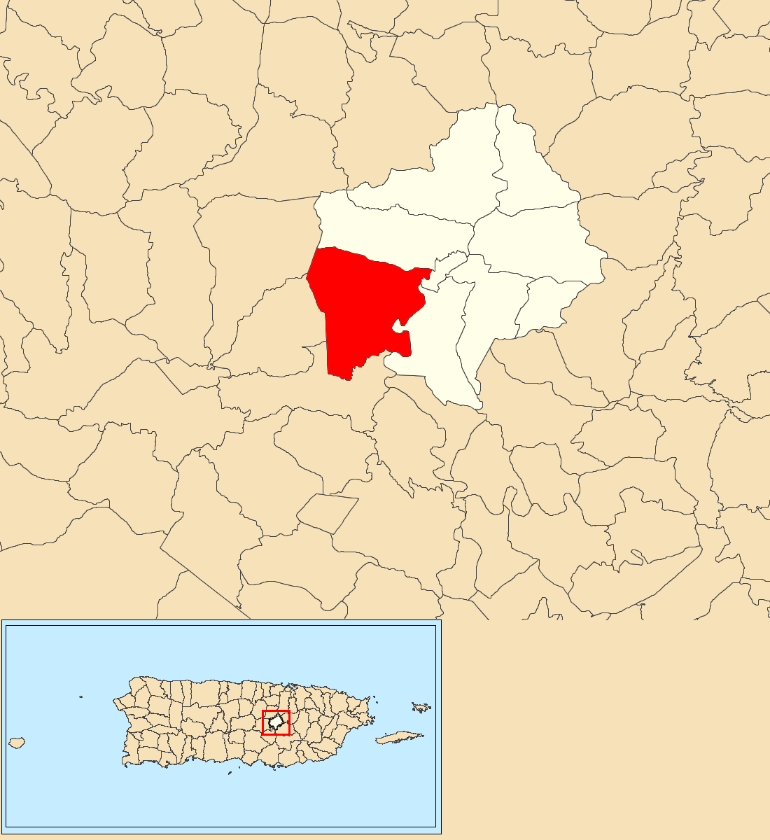 Río Hondo, Comerío, Puerto Rico locator map